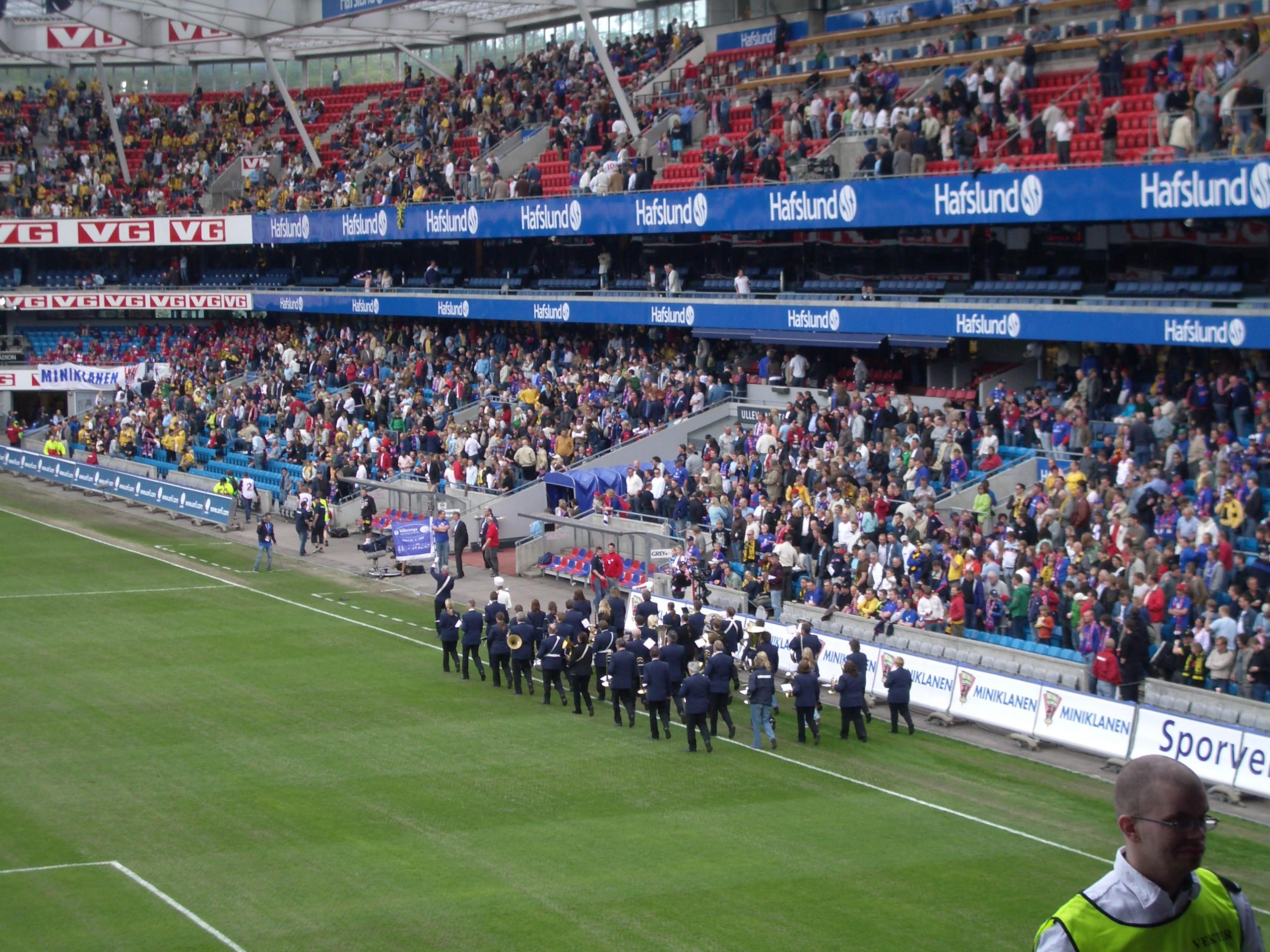 Ullevaal Stadion in Oslo, Norway. The main stand.